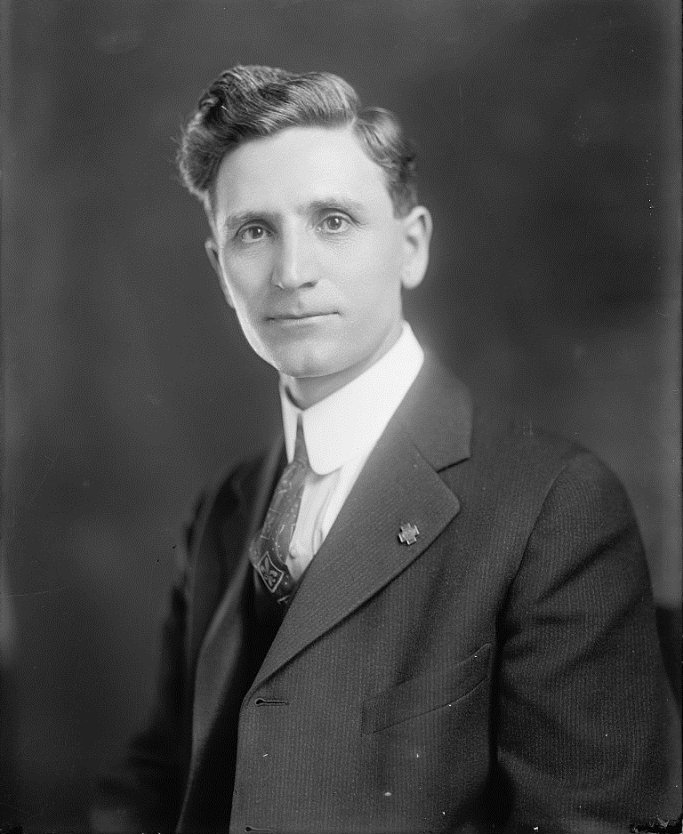 Benjamin F. Welty, congressman from Allen County, Ohio.